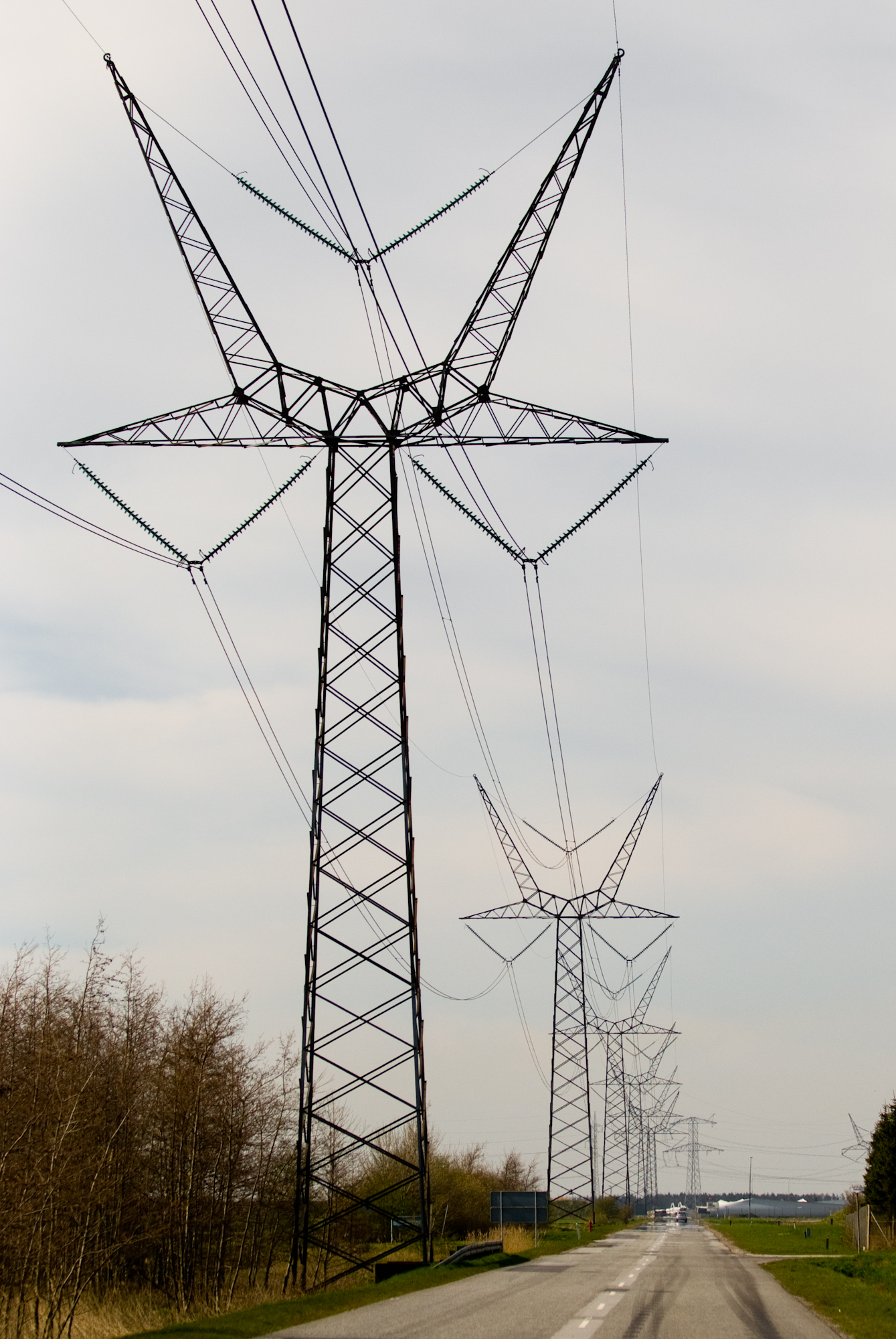 Y-shaped pylons of a single-circuit HV overhead power line next to a road, leading into the Danish city Aalborg